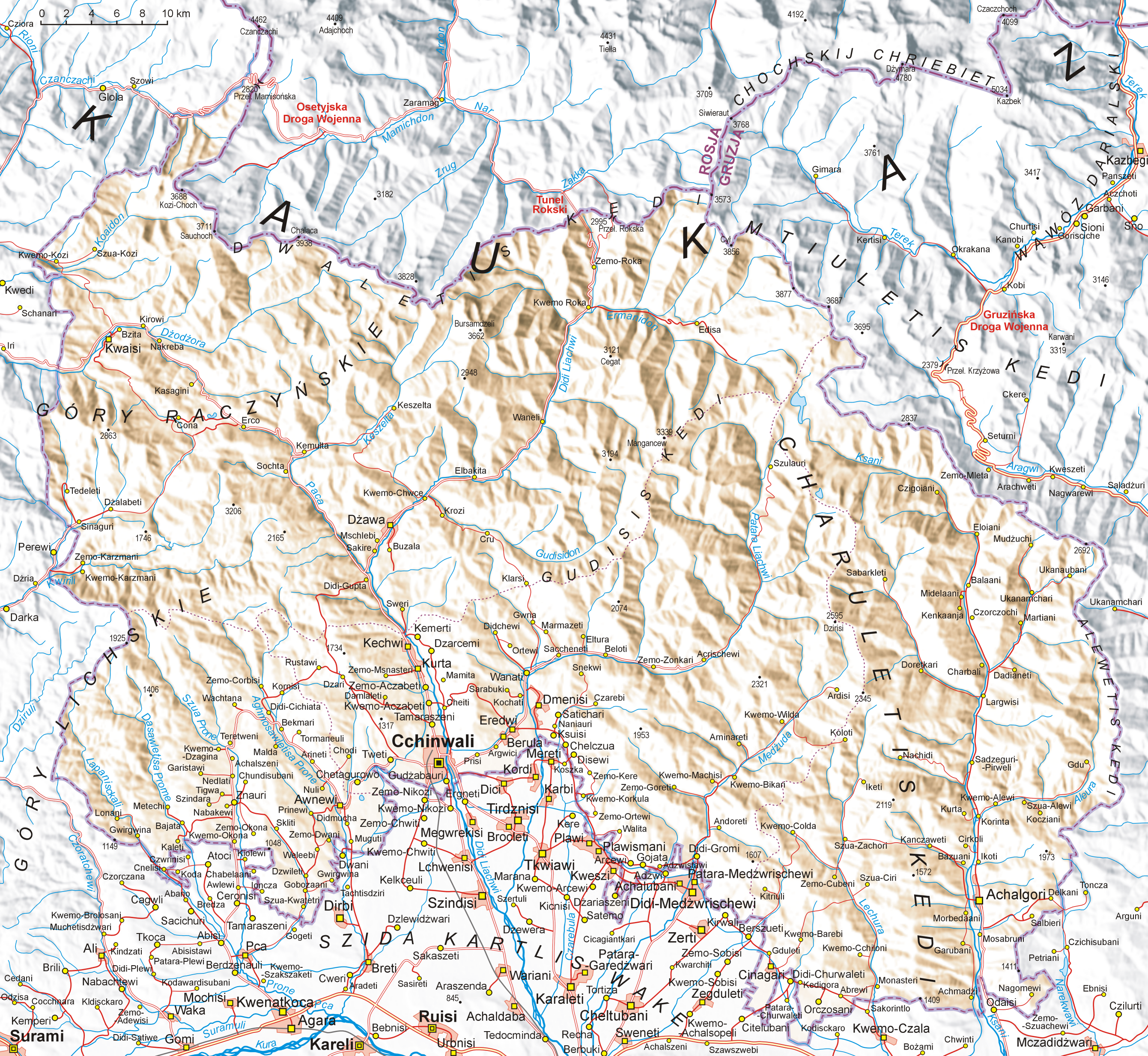 Map of South Ossetia, based on Soviet topographic map published in the eighties and Shuttle Radar Topography Mission (STRM). Names are in Polish transcription based on rules of Commission on Standardization of Geographical Names Outside the Republic of Poland. Differences between Polish transcription and English one: C=TS, CH=KH, CZ=CH, DŻ=J, J=Y, Ł=W, SZ=SH, W=V (i.e.: CCHINWALI=TSKHINVALI, MCZADIDŻWARI=MCHADIJVARI, SZUA-CIRI=SHUA-TSIRI etc.)